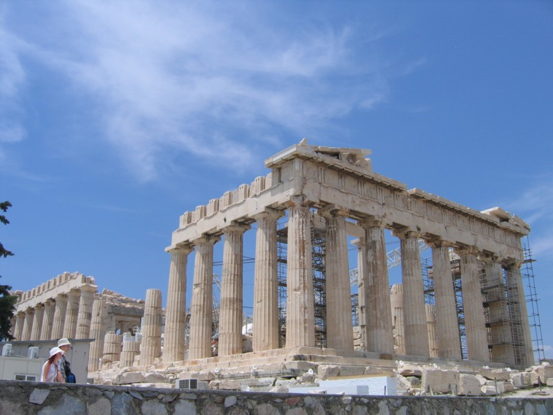 Temple of Parthenon of Athens